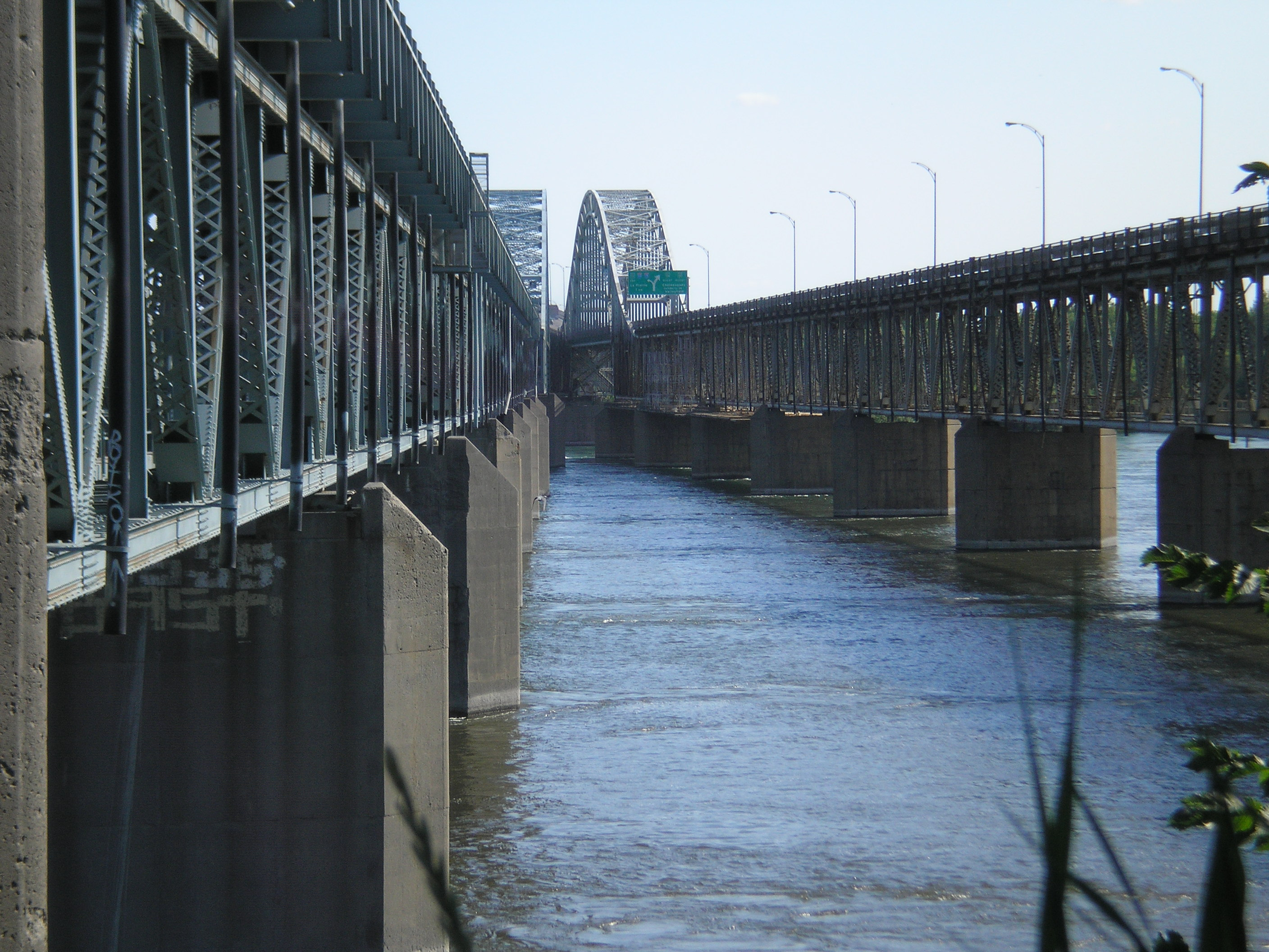 The twin spans of the Mercier Bridge seen from the Monette-Lafleur bus terminal